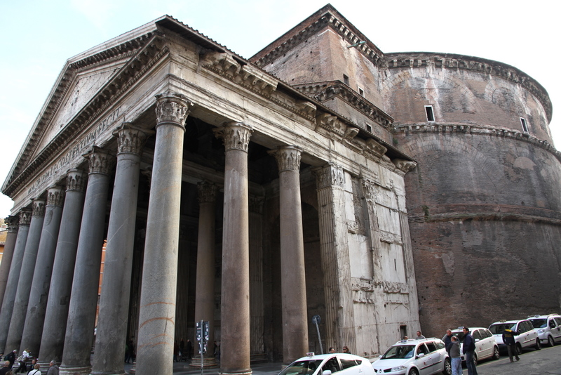 Pantheon viewed from the right side.